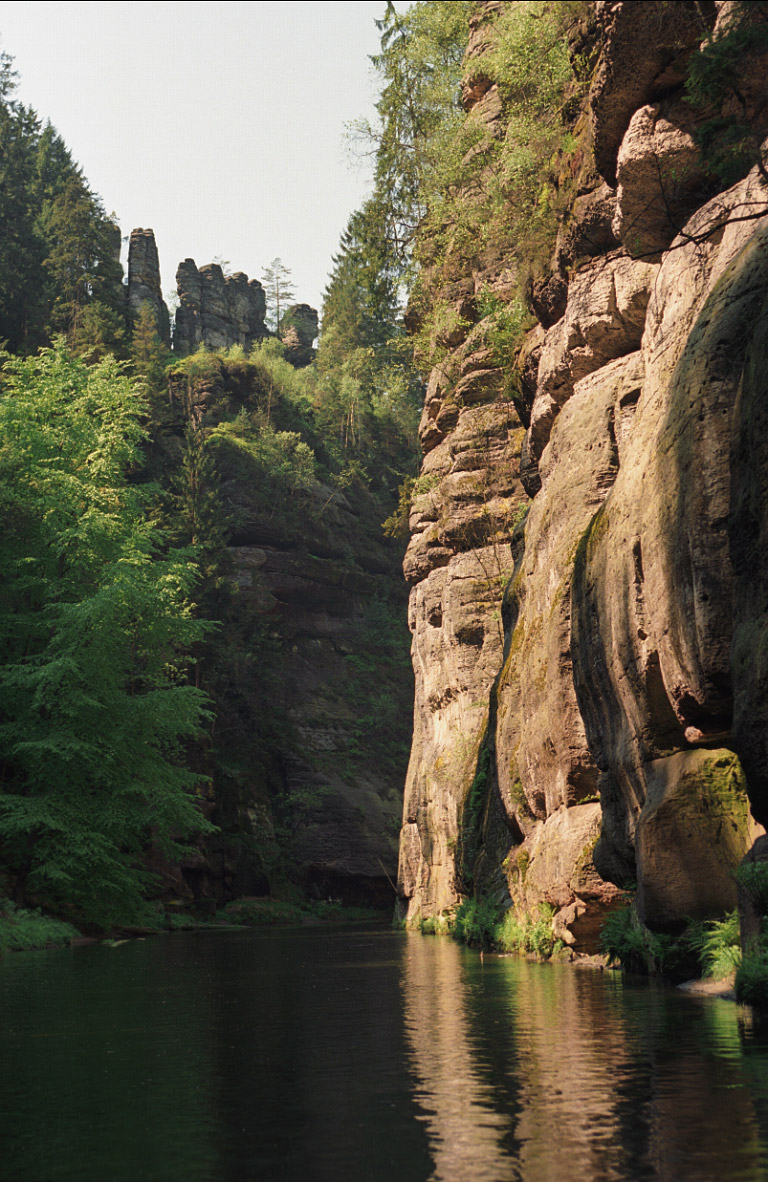 Kamenice River, the Silent Gorge